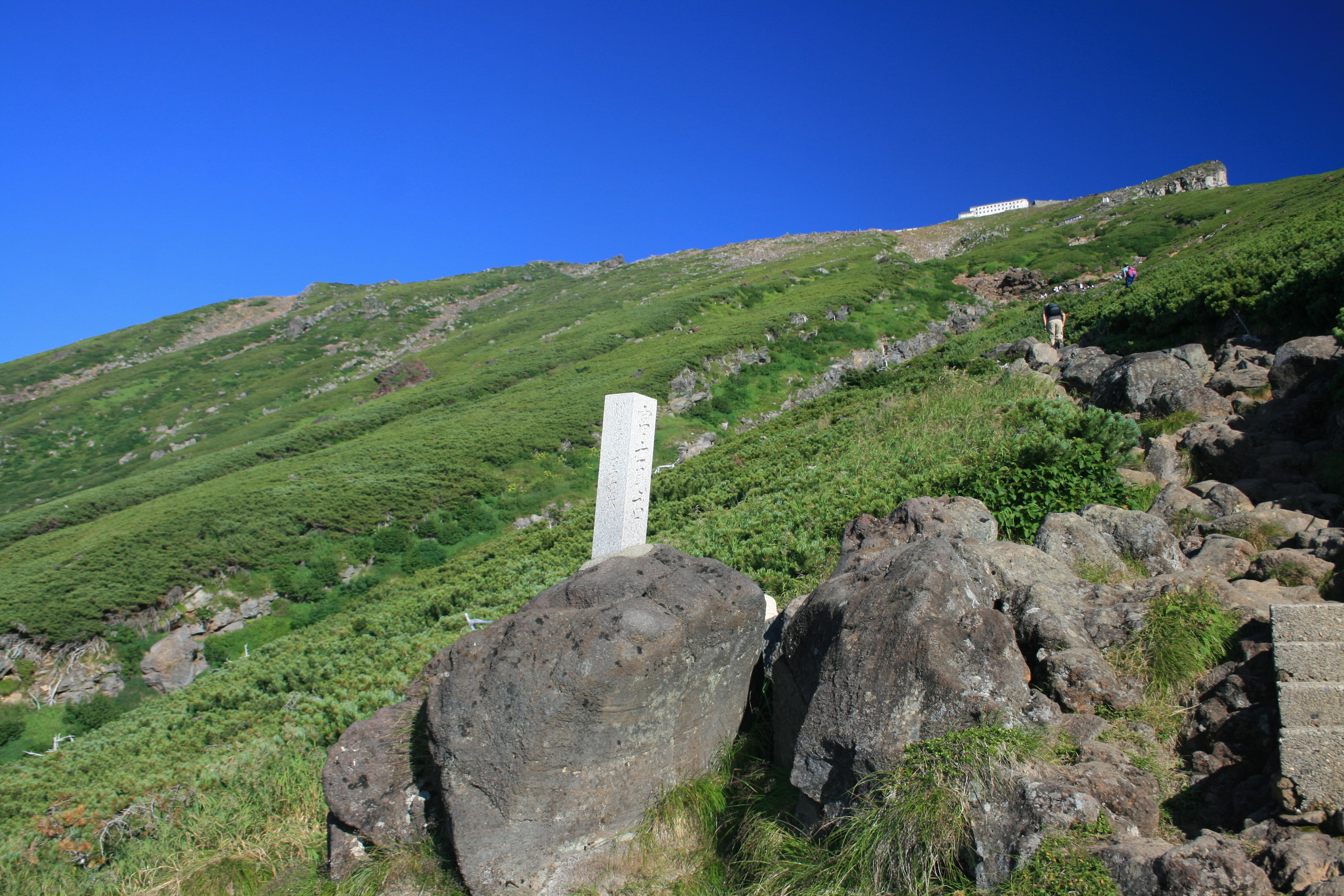 Fujimi-ishi on Ōtake route for in Mount Ontake, Japan.